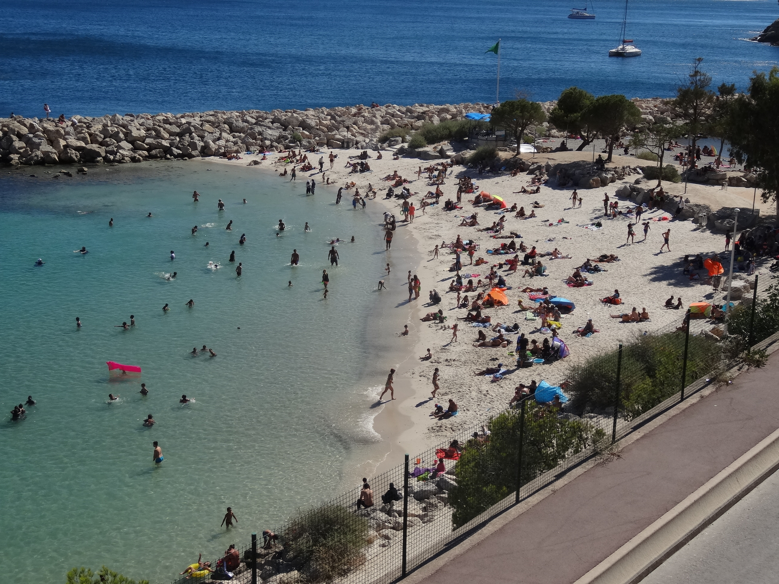 Beaches of Corbières, seen from Quai de la Lave. Les Riaux, 16th arrondissement of Marseille, France.